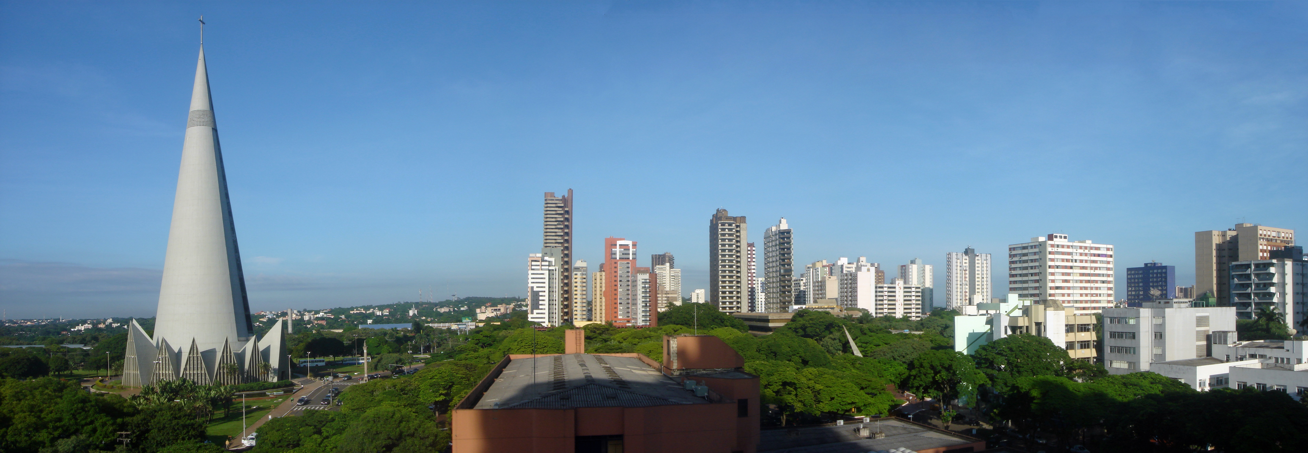 Panoramic view of downtown Maringá. At the left, the Cathedral of Maringá. Paraná, Brazil